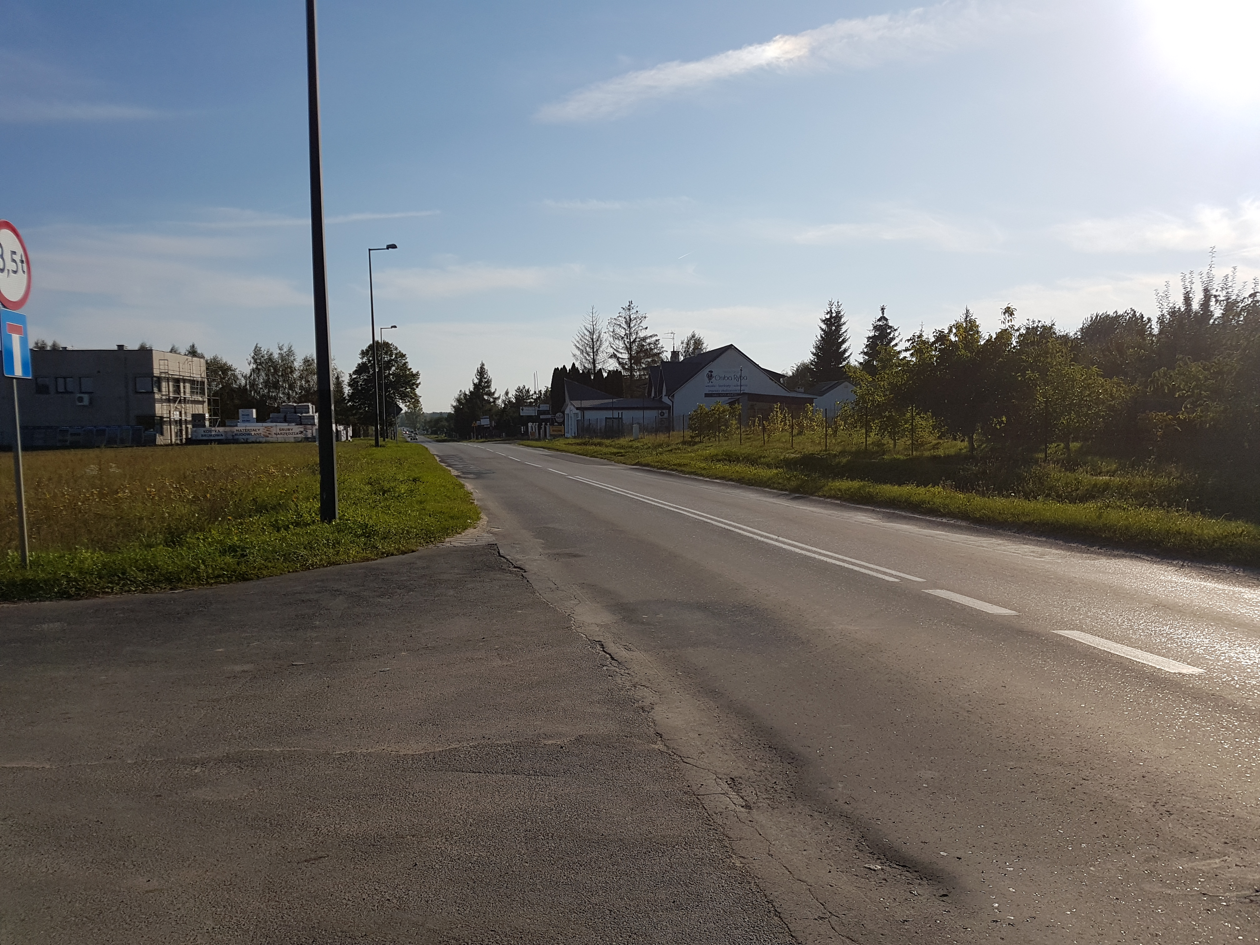 Ulica Janowska w Lublinie. Widok ze skrzyżowania z Parczewską w stronę południową.